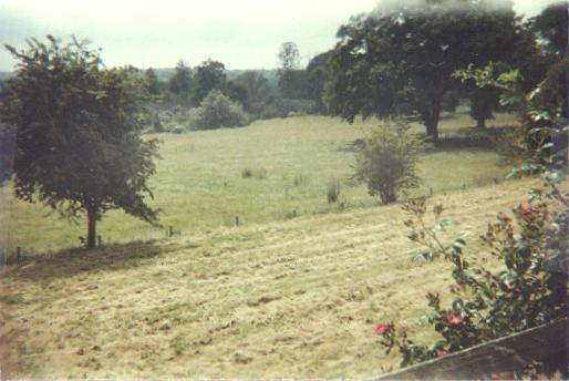 hastings battlefield View from Battle Abbey to field where Battle of Hastings took place in 1066. Sylvan took this picture on 35-mm film in 1986 and scanned it in for Wikipedia in 2002. K. Kay Shearin